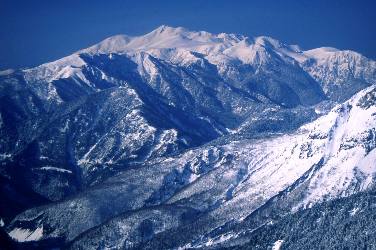 Mount Norikura seen from Nishihotaka in Hida Mountains, Japan.